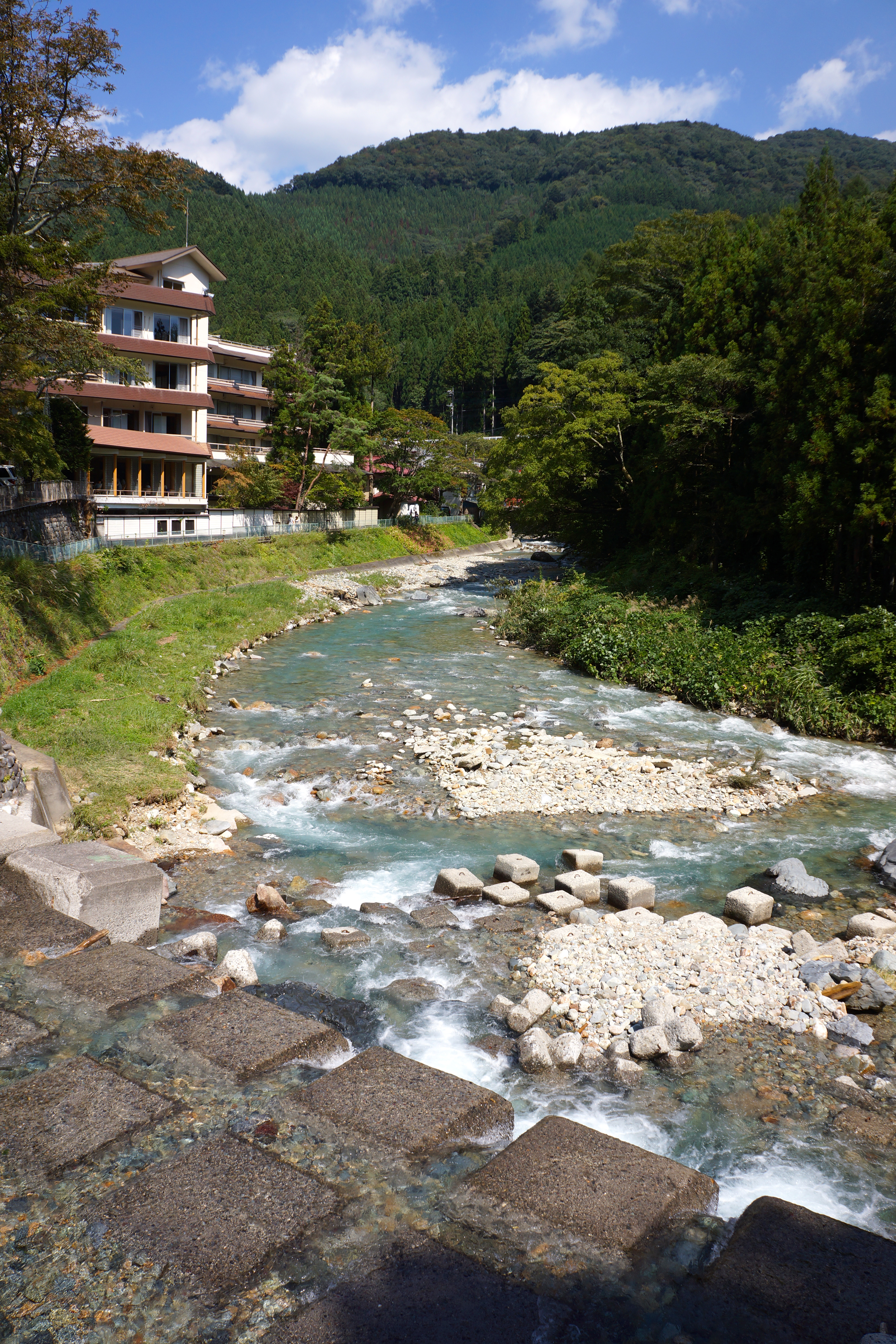 Japan : Shima onsen, Nakanojō (Gunma prefecture).